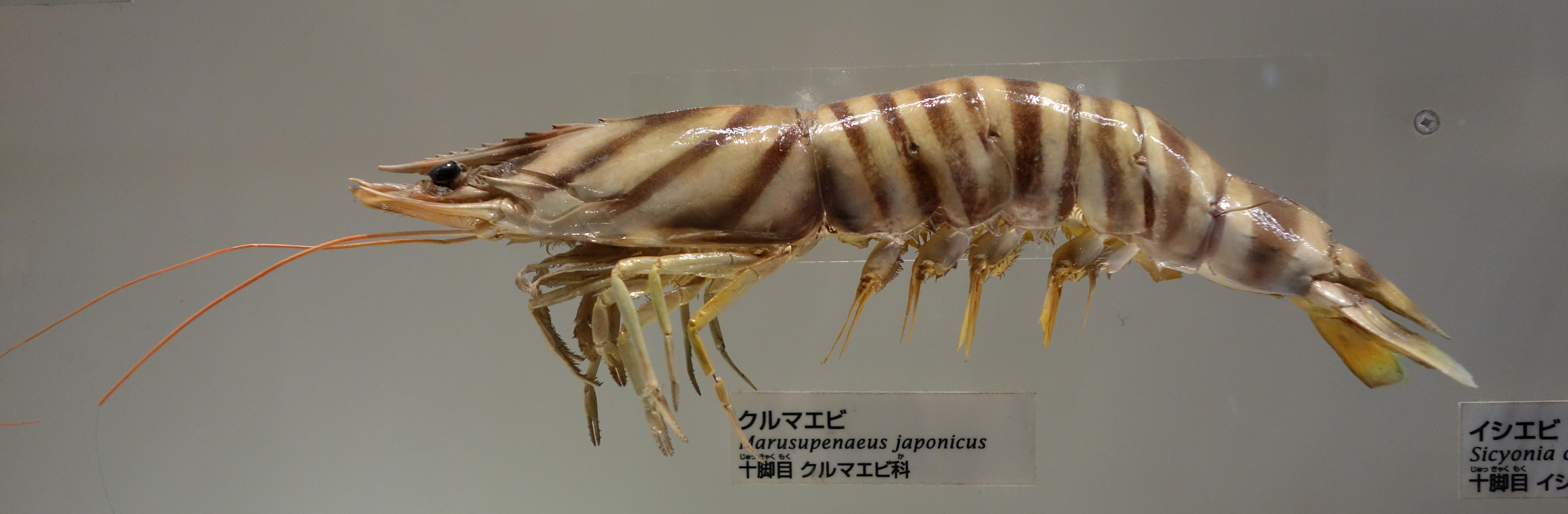 Exhibit in the National Museum of Nature and Science, Tokyo, Japan.